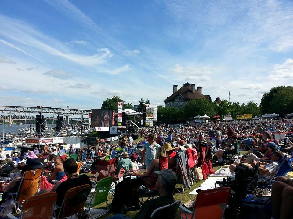 Waterfront Blues Festival south main stage